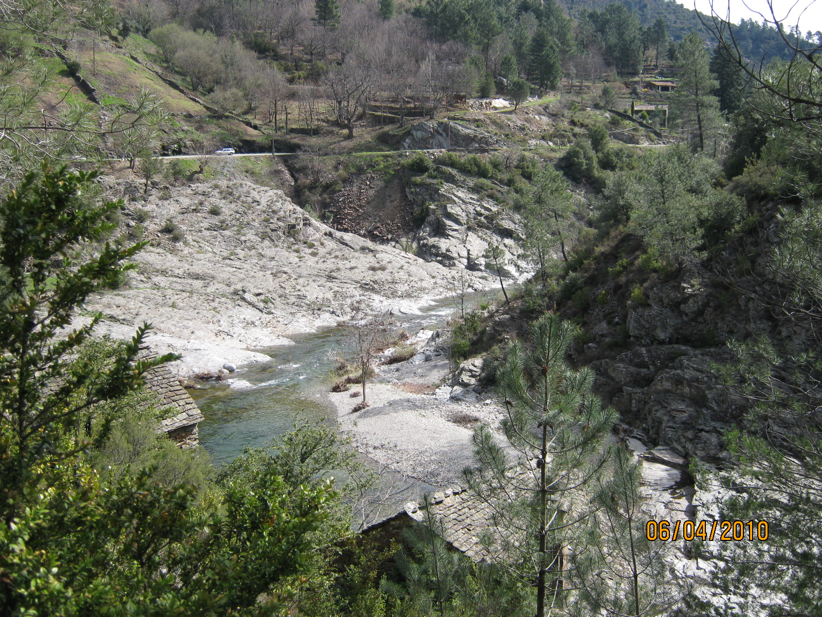 Drobie river in the departement Ardèche, France.